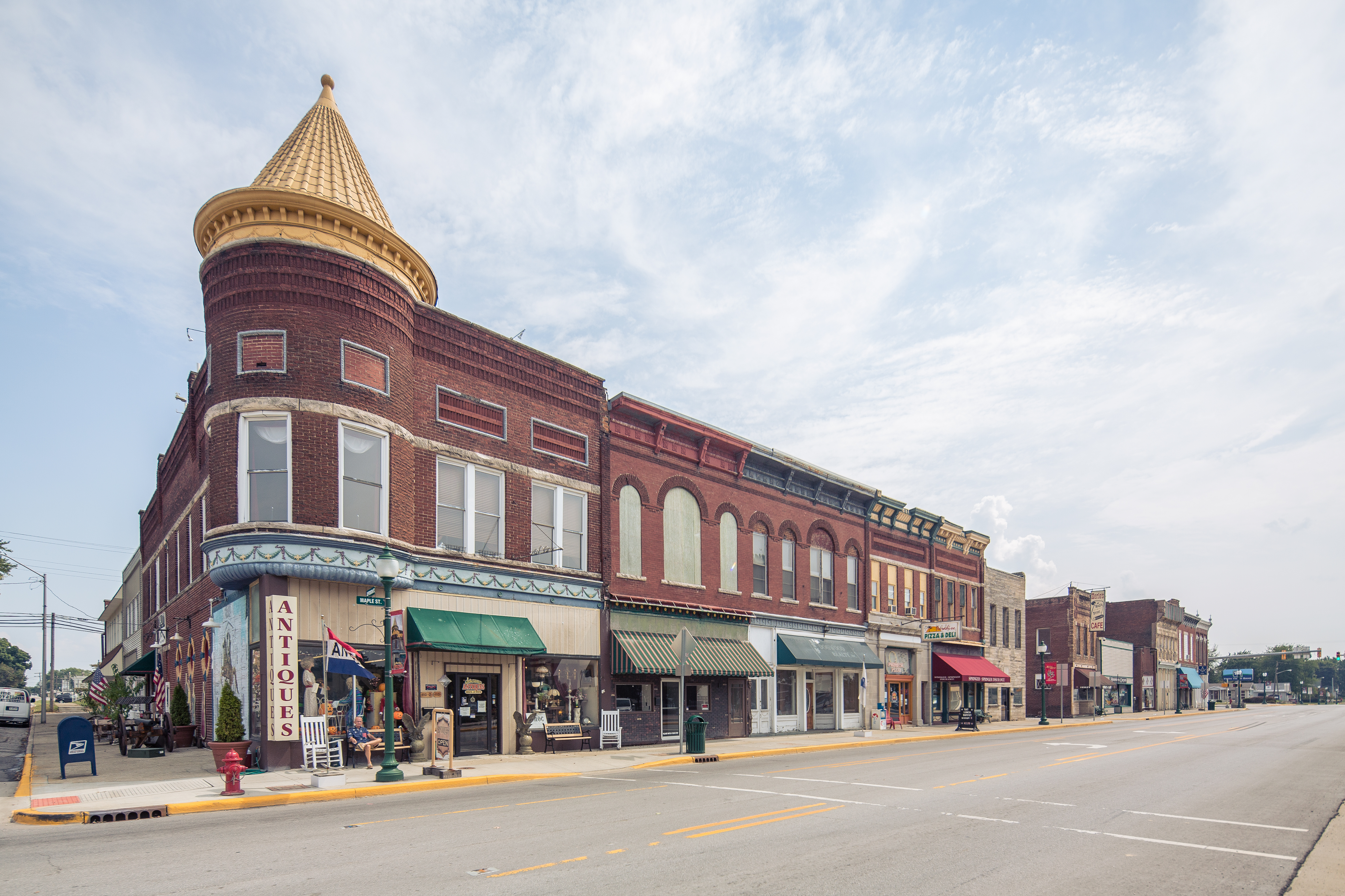 Photo from Small Town Indiana photo survey.